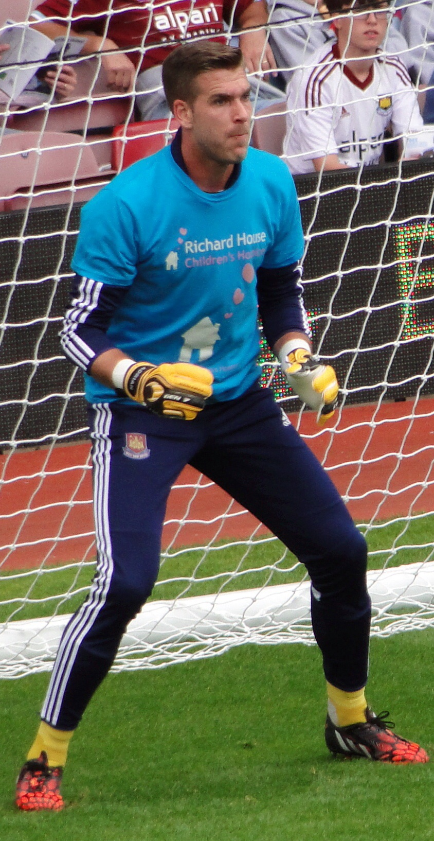 West Ham United goalkeeper Adrián warming up at the Boleyn Ground, August 2014